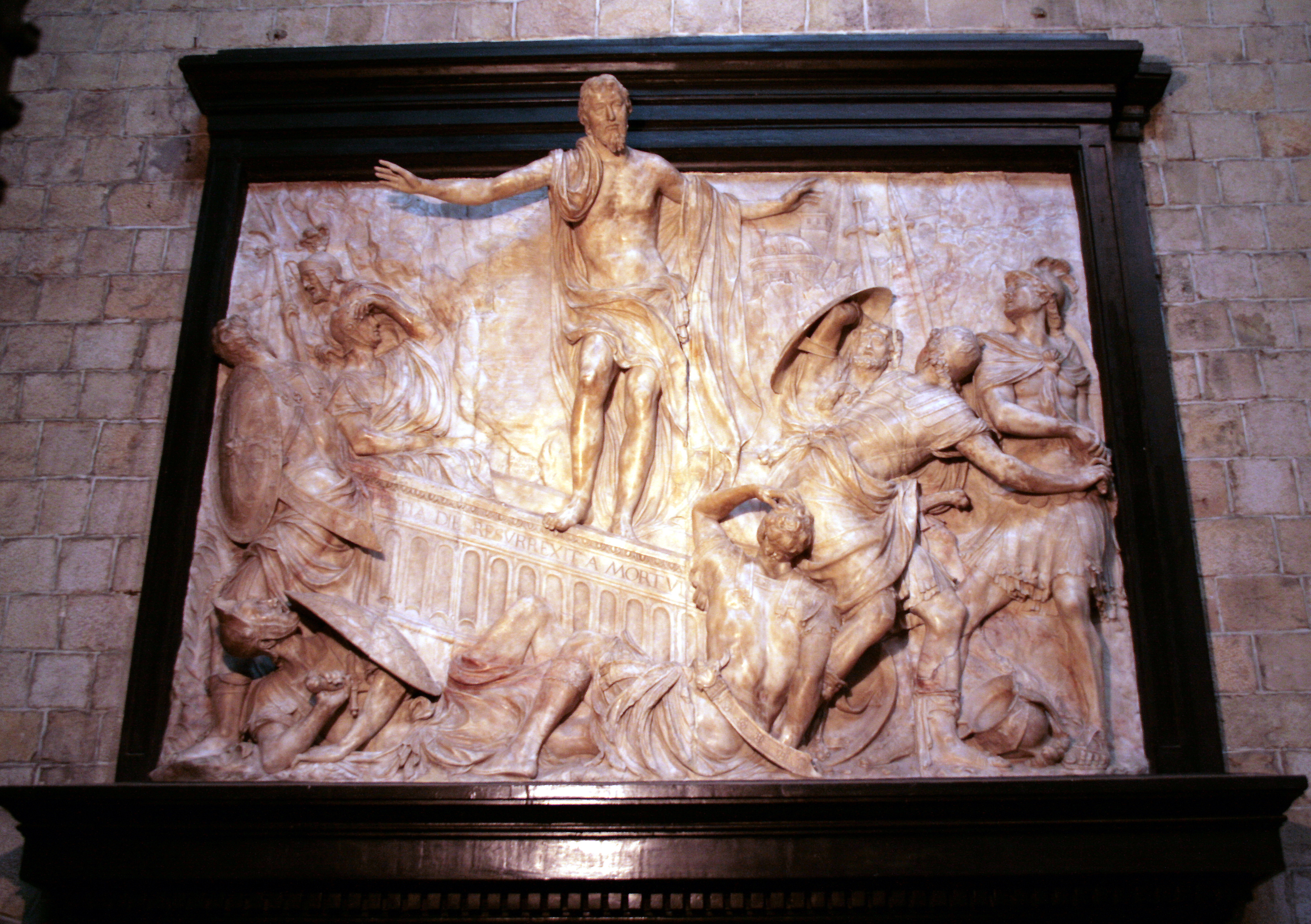 Relief of the Resurrection. – Part of the former rood screen performed by Jacques Du Brœucq between 1541 et 1545 for the Saint Waltrude collegiate church of Mons.